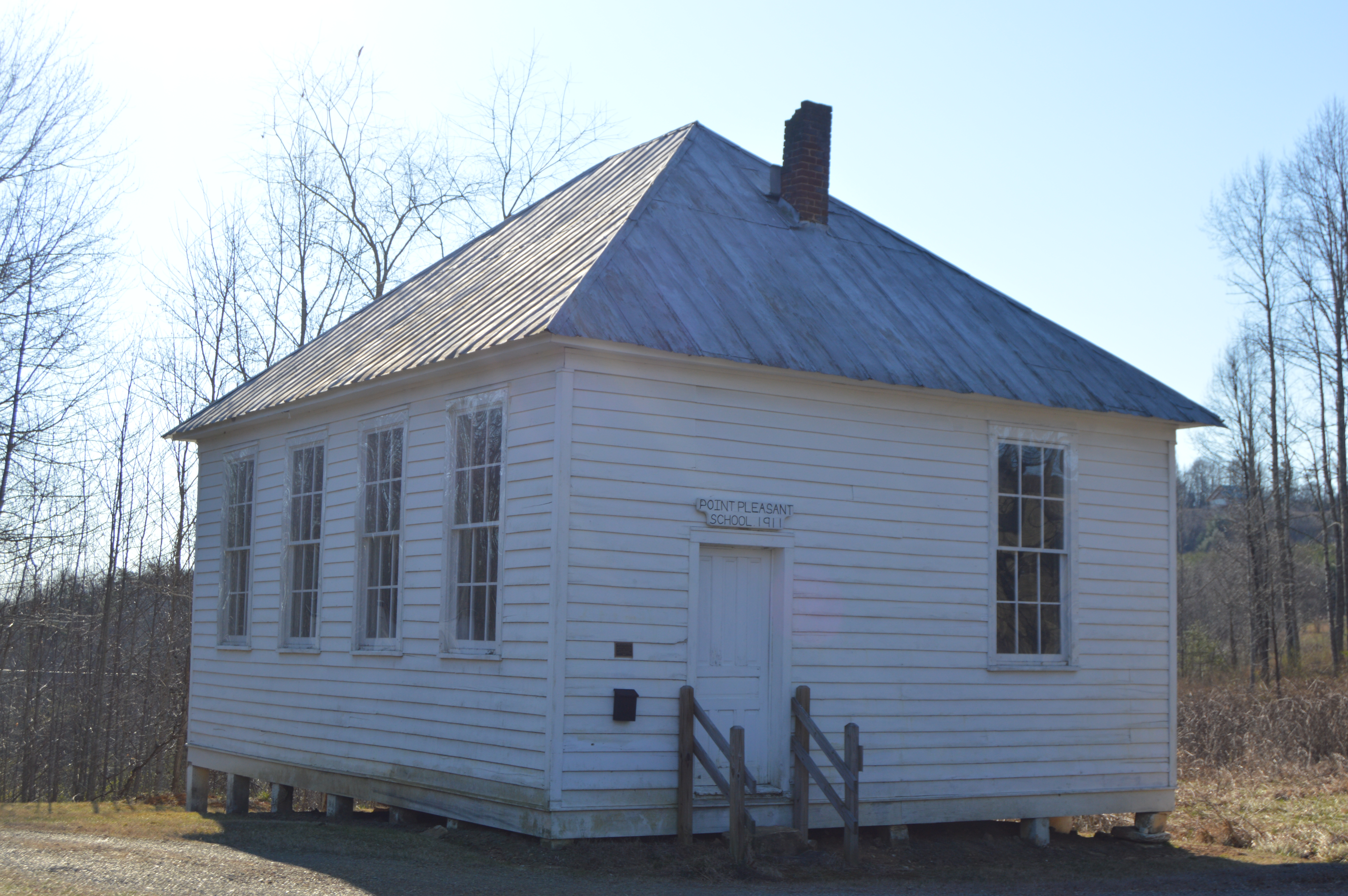 Front and northern side of the Point Pleasant School, located on Laurel Fork Road west of Laurel Fork in Carroll County, Virginia, United States. Built in 1911, it is listed on the National Register of Historic Places.